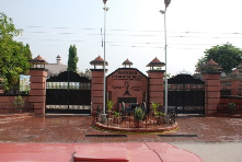 Entrance gate